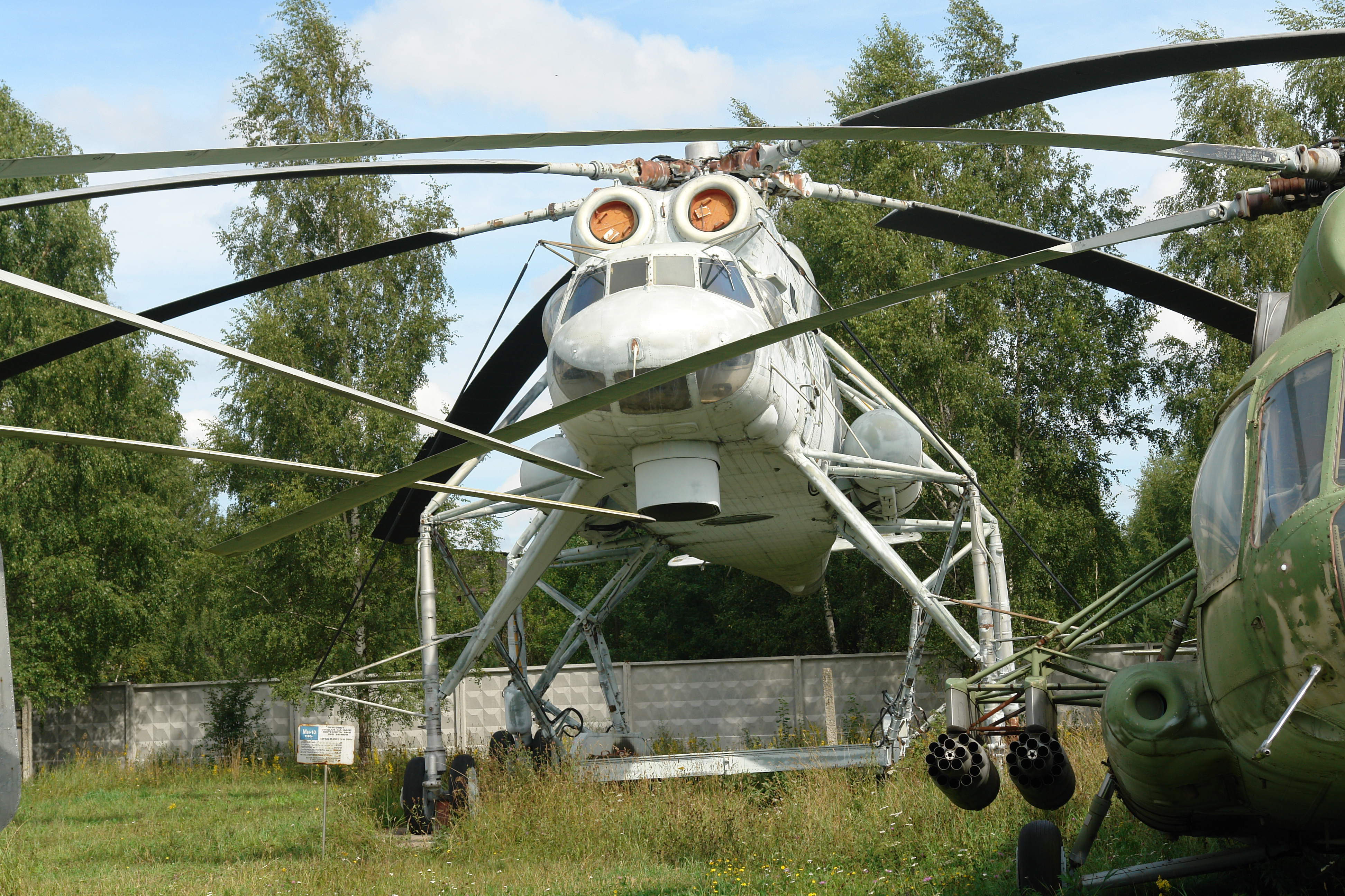 Mil Mi-10 (Harke) at Monino Central Air Force Museum (Moscow).